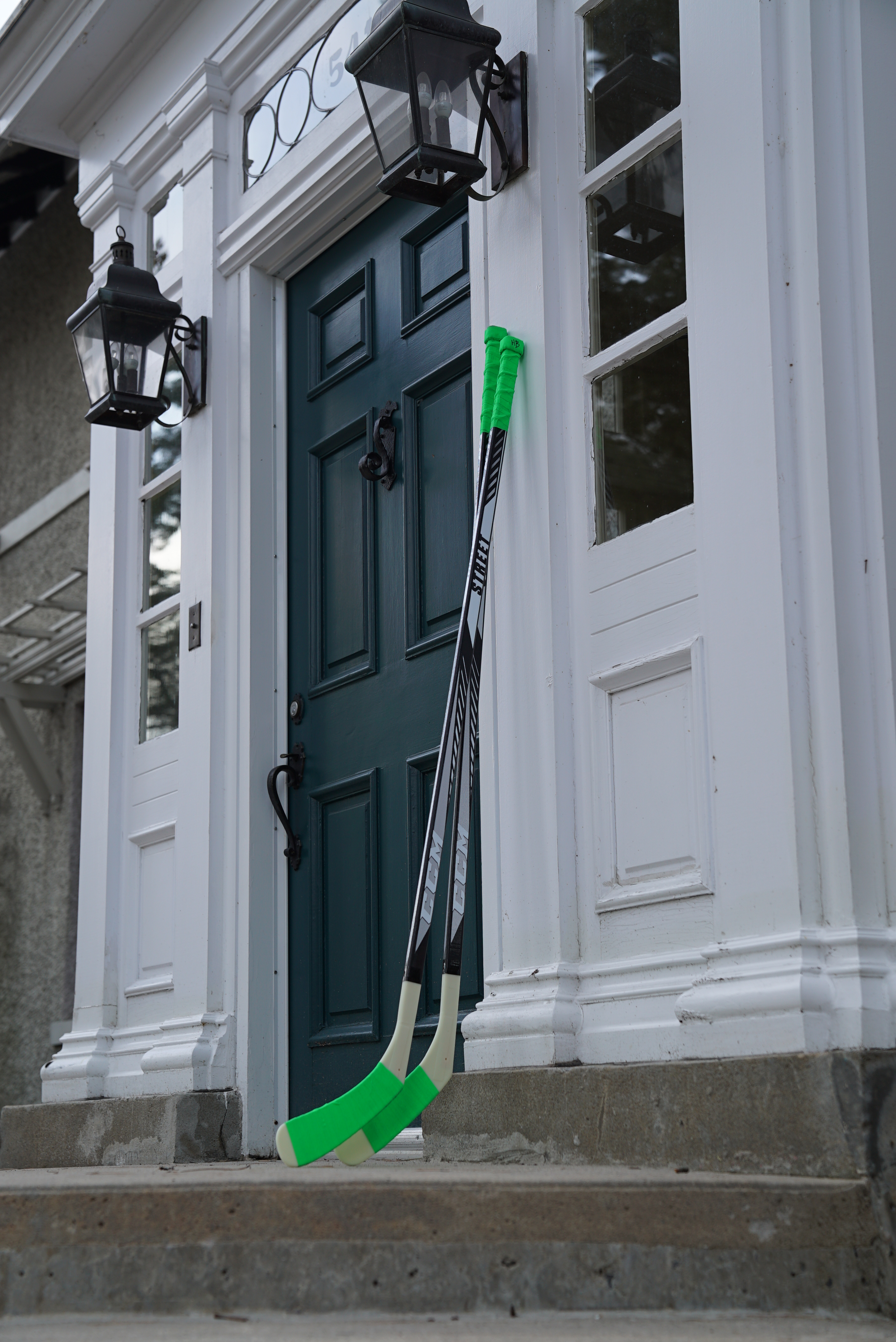 Sticks out for Humboldt at Stornoway tonight. A whole country stands with you broncos.